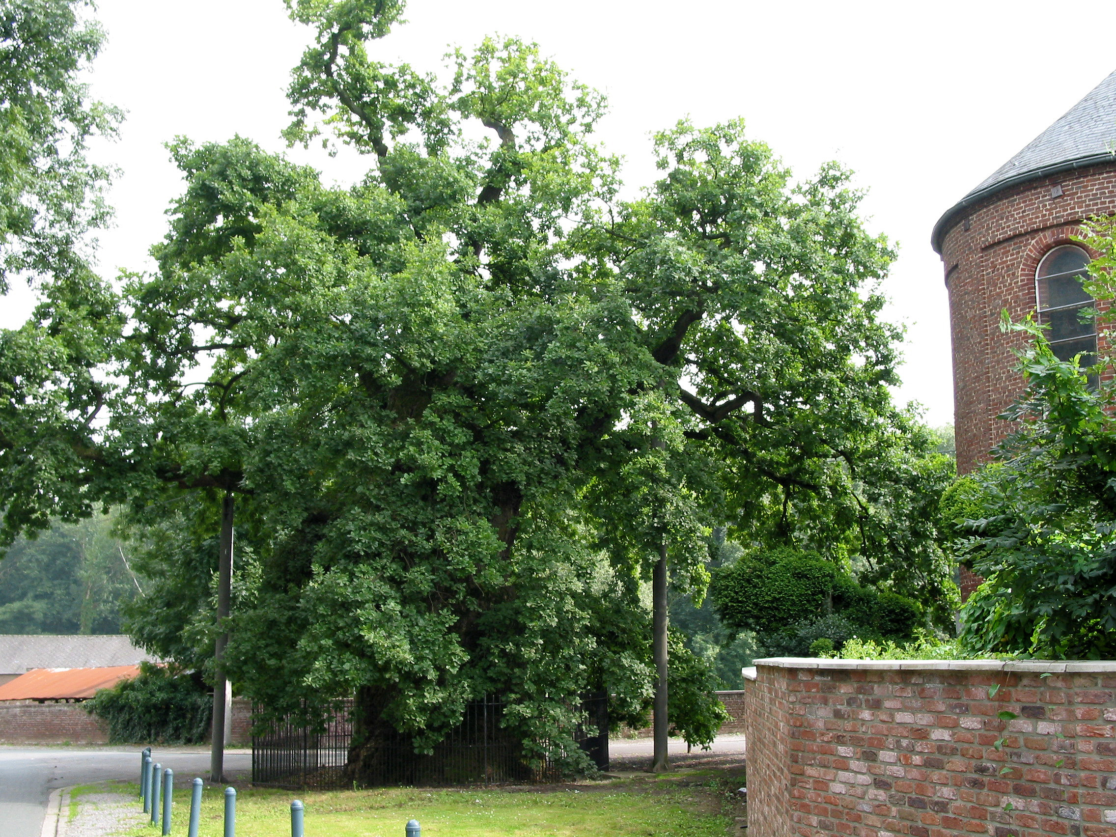 Pedunculate oak.